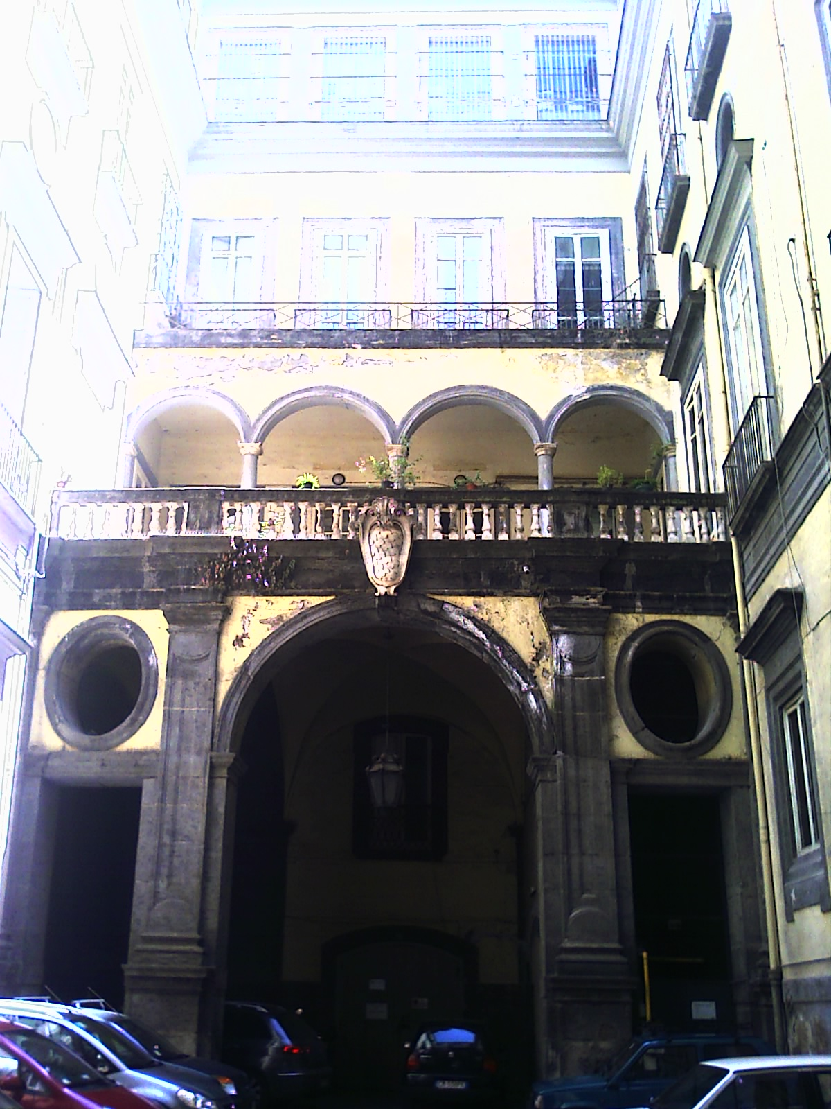 Palazzo Fondi: Courtyard